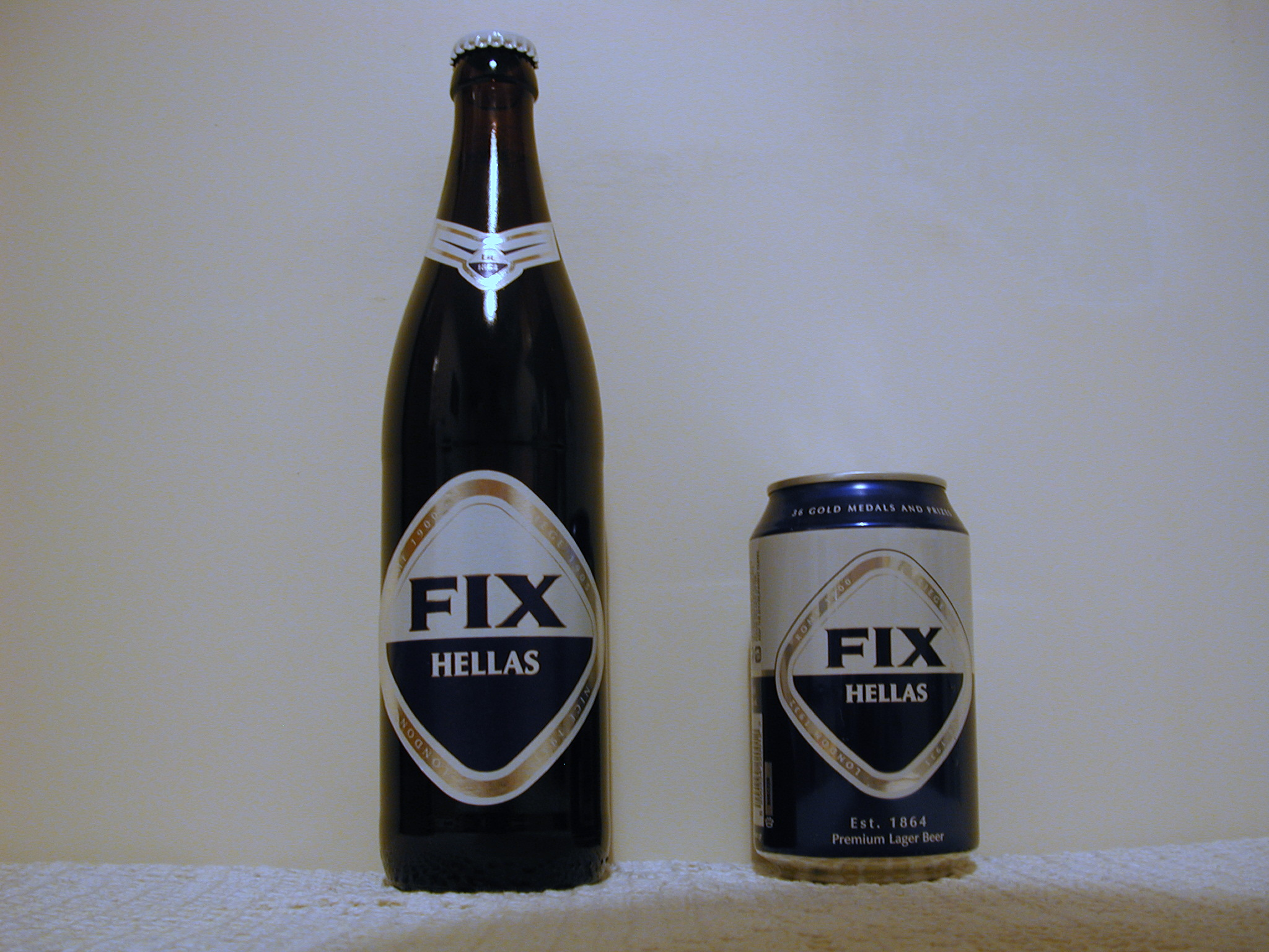 Fix Hellas beer, 2010 version: Bottle and can